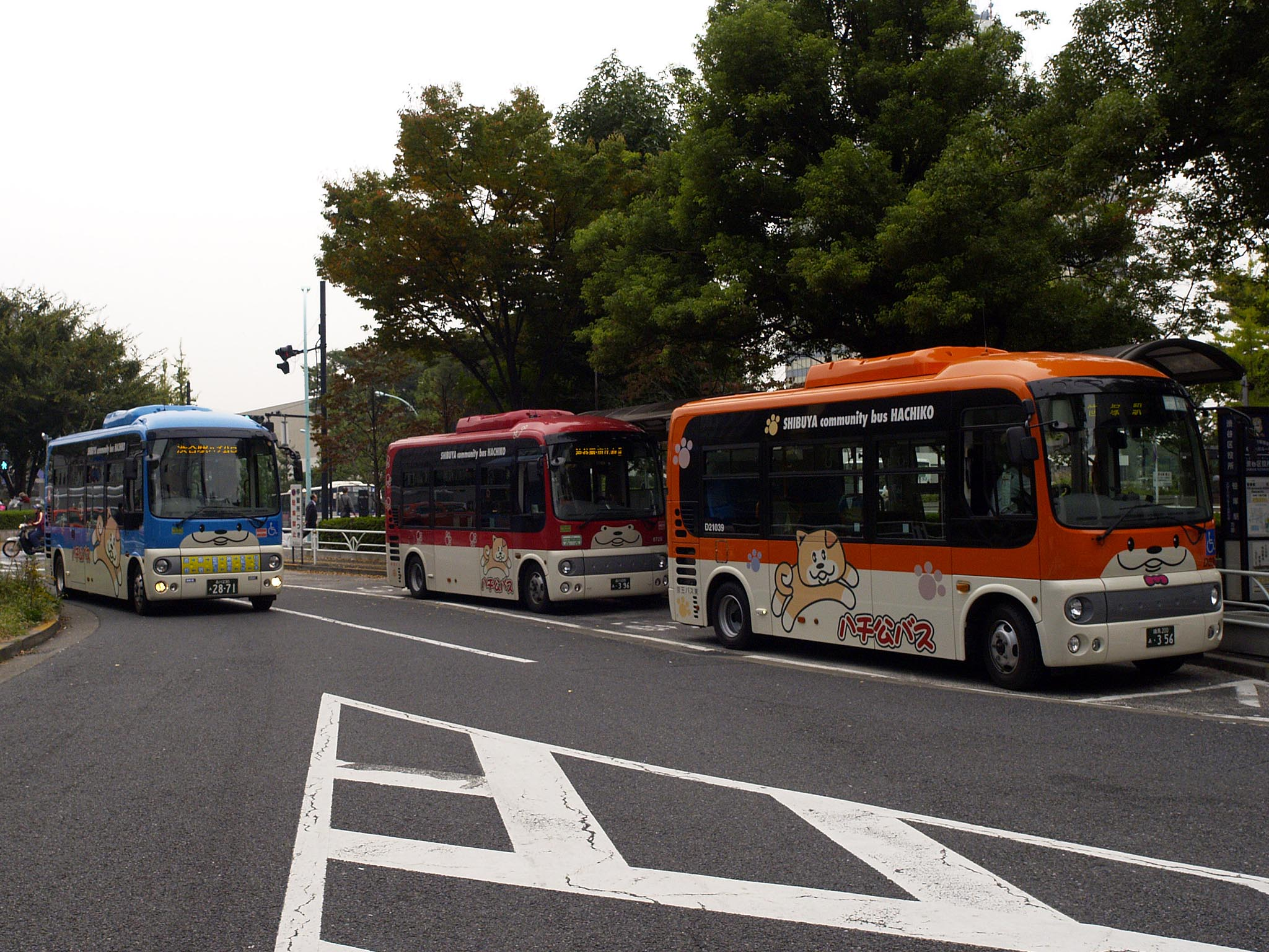 Three "Hachiko Bus" meet at Shibuya Ward Office bus stop. Forward (orange): Haru-no Ogawa route, bound for Honcho and Sasazuka, by Keio Bus Higashi Middle (red): Yu-yake Koyake route, bound for Ebisu and Daikan-yama, by Tokyu Transses Aft (blue): Jingu-no-Mori route, bound for Harajuku and Yoyogi, by Fuji Express.